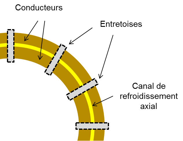 Axial ducts and spacers of on a transformer winding.